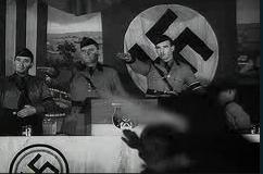 German American Bund Rally: Bund leader Fritz Kuhn (center), Wilhelm Kunze, national publicity director (right). Still from "March of Time" -outtakes - Story RG-60.0699, Tape 316